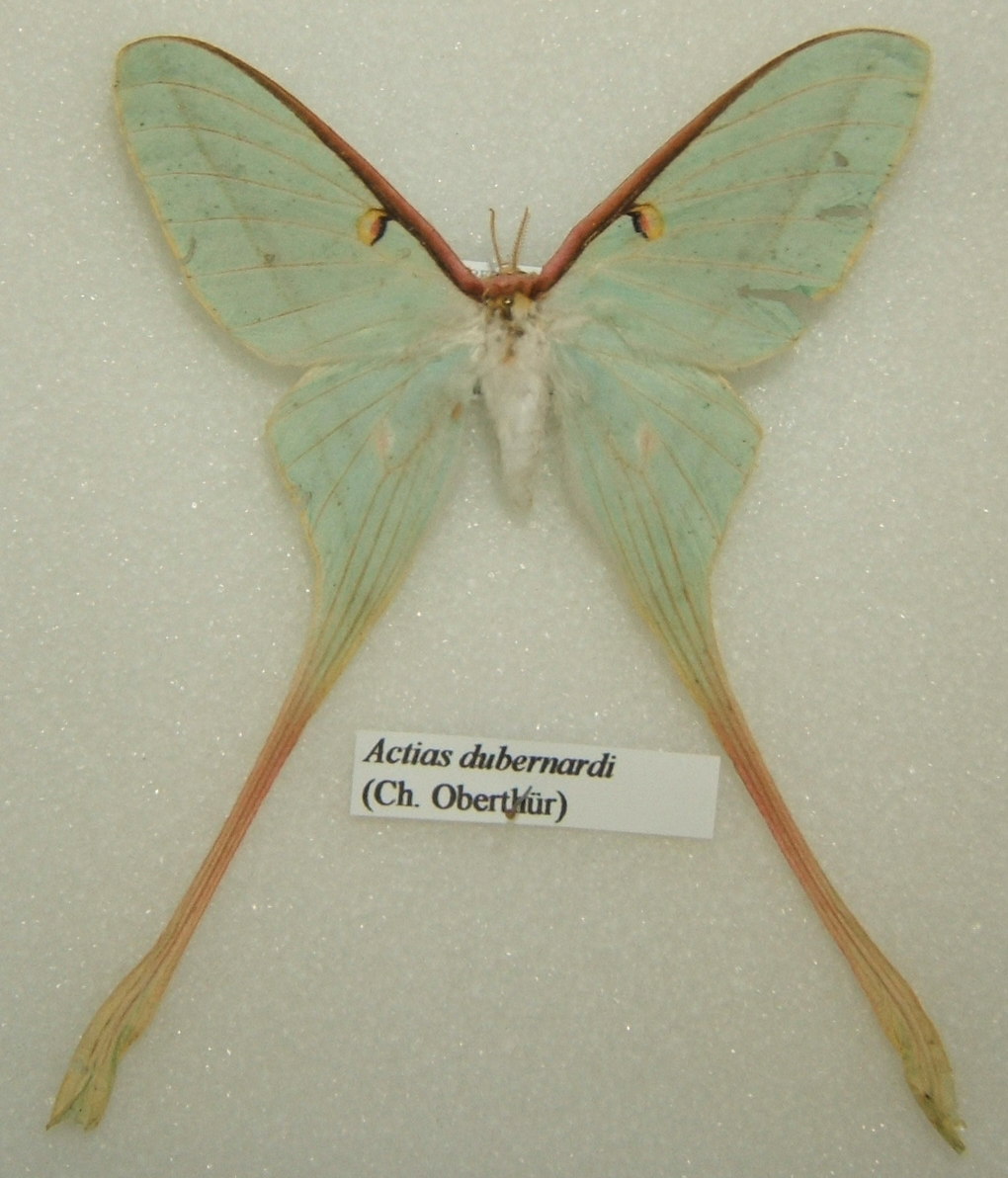 Actias dubernardi adult female taken by Shawn Hanrahan at the Texas A&M University Insect Collection in College Station, Texas.